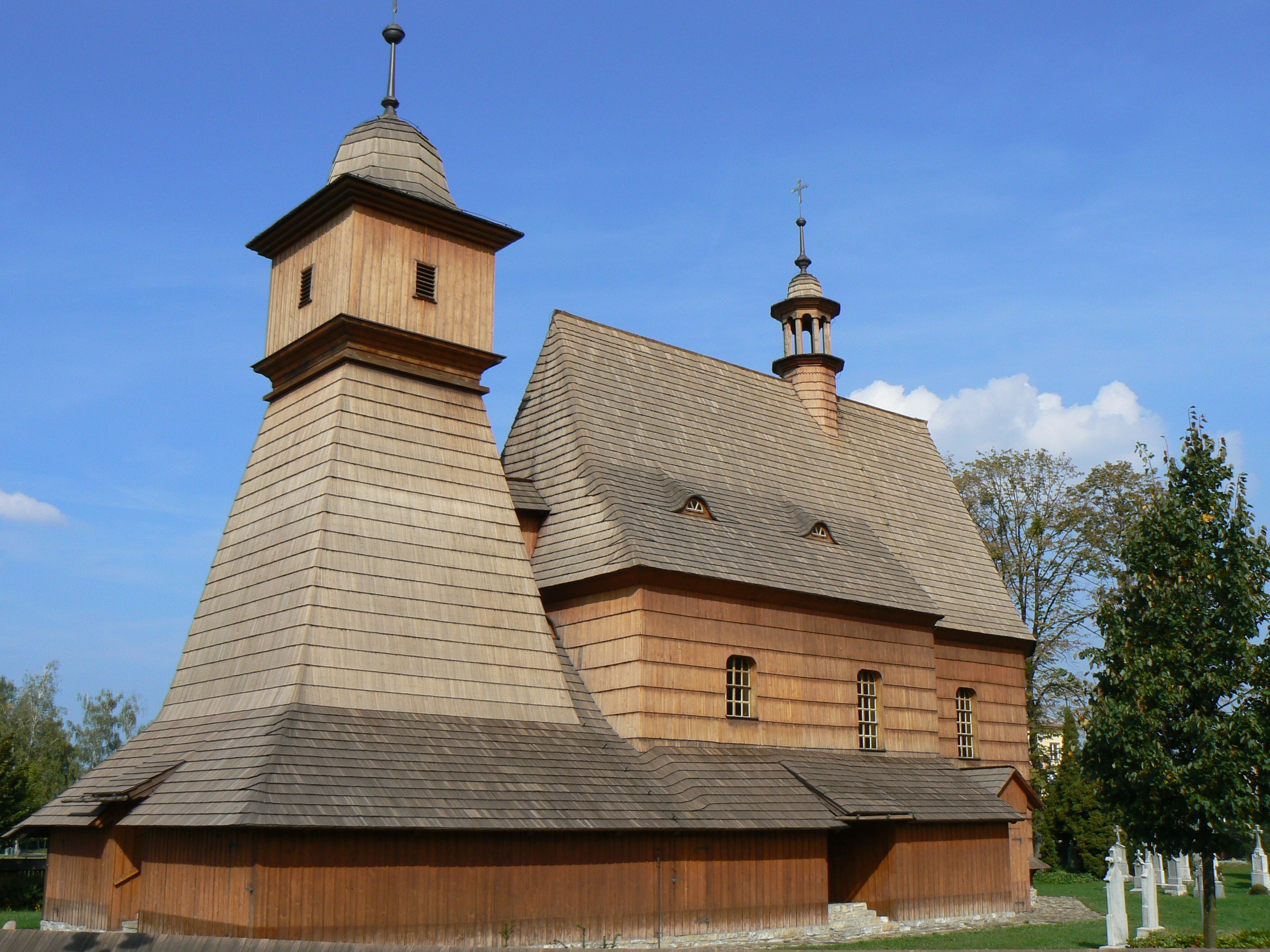 Ostrava-Hrabová - a wooden church of st. Catherine